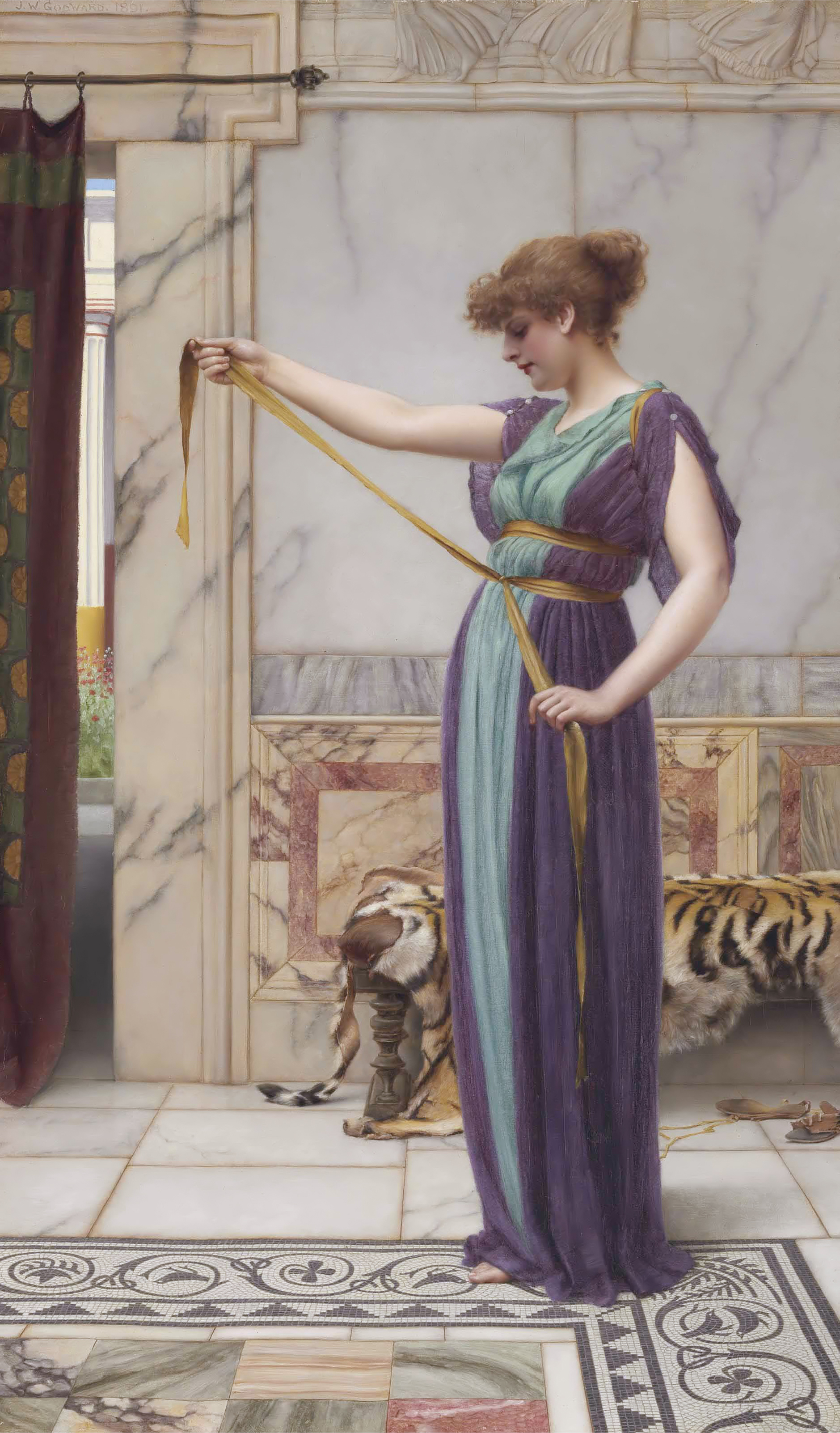 A Pompeian Lady oil on canvas 76.8 x 46.3 cm signed u.l.: J.W. Godward 1891